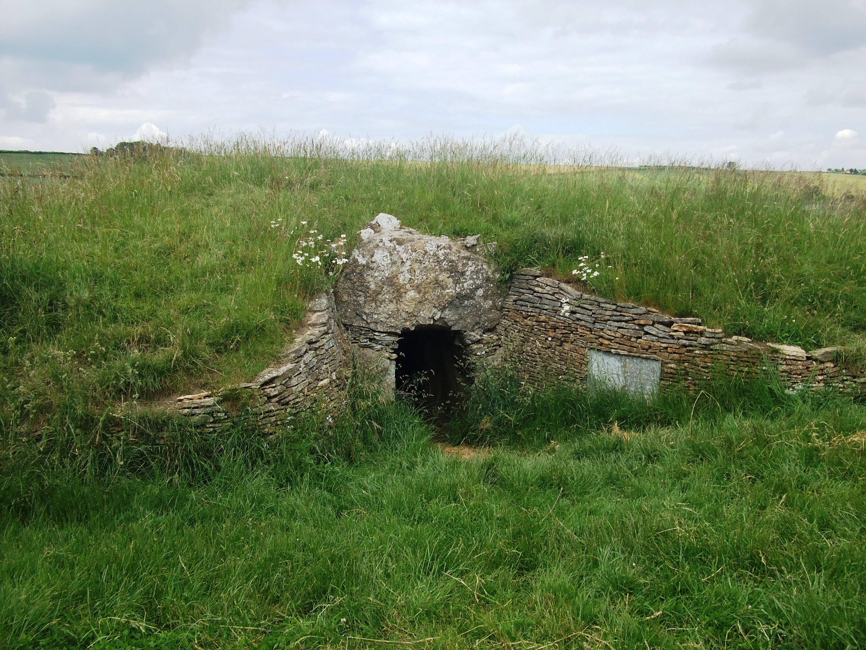 Stoney Little Long Barrow near Wellow Somerset